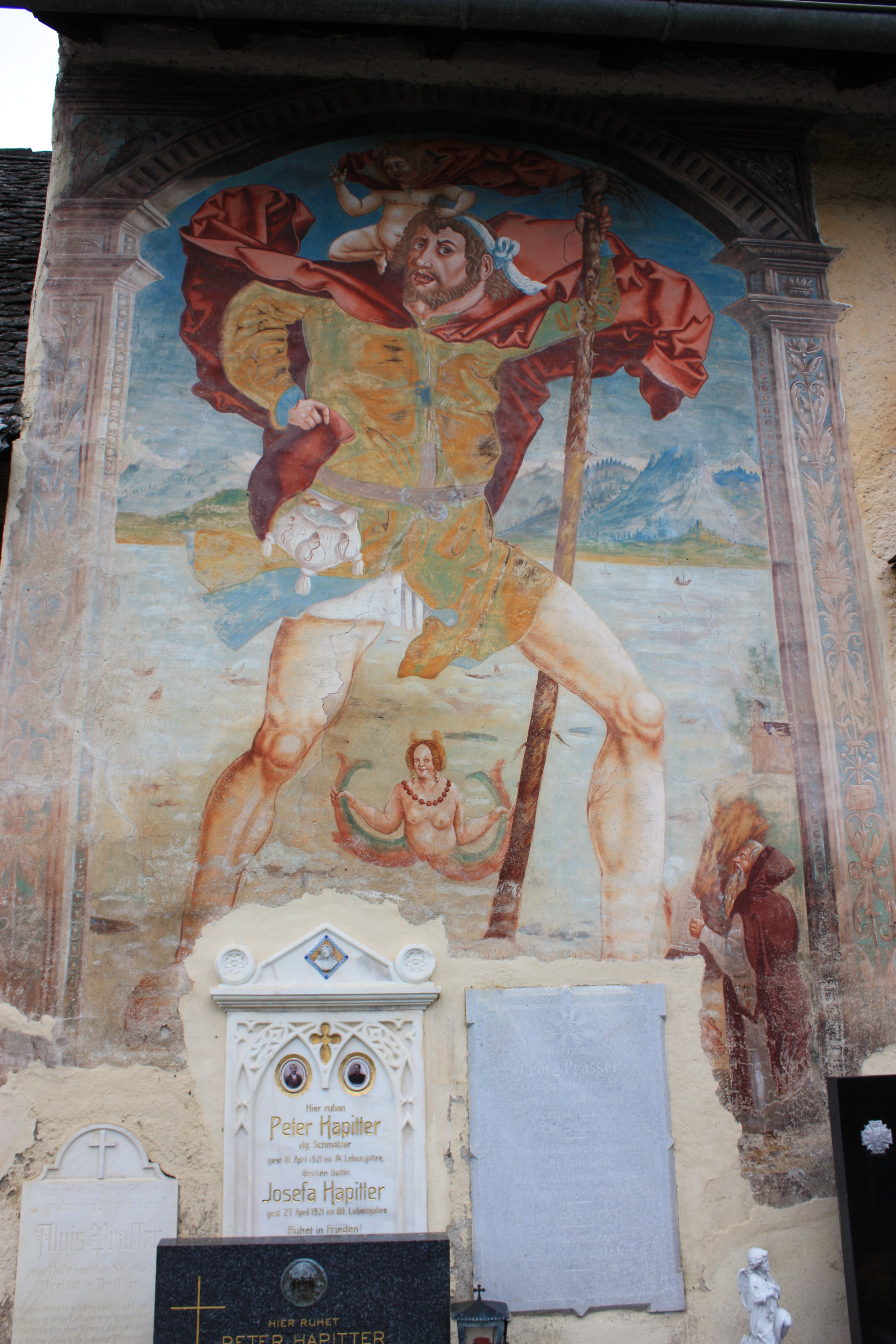 Subsidiary church: Saint Christopher Locality:Treffling Community:Mölbling